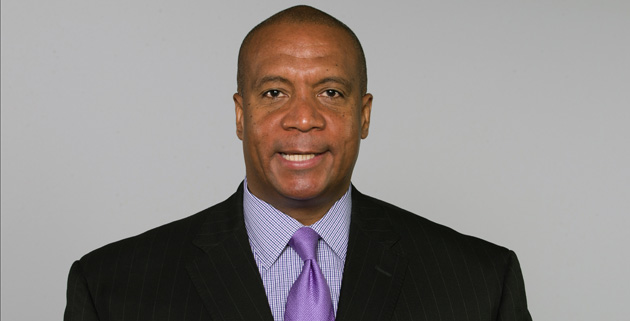 Kevin Warren 2013 Vikings Headshot